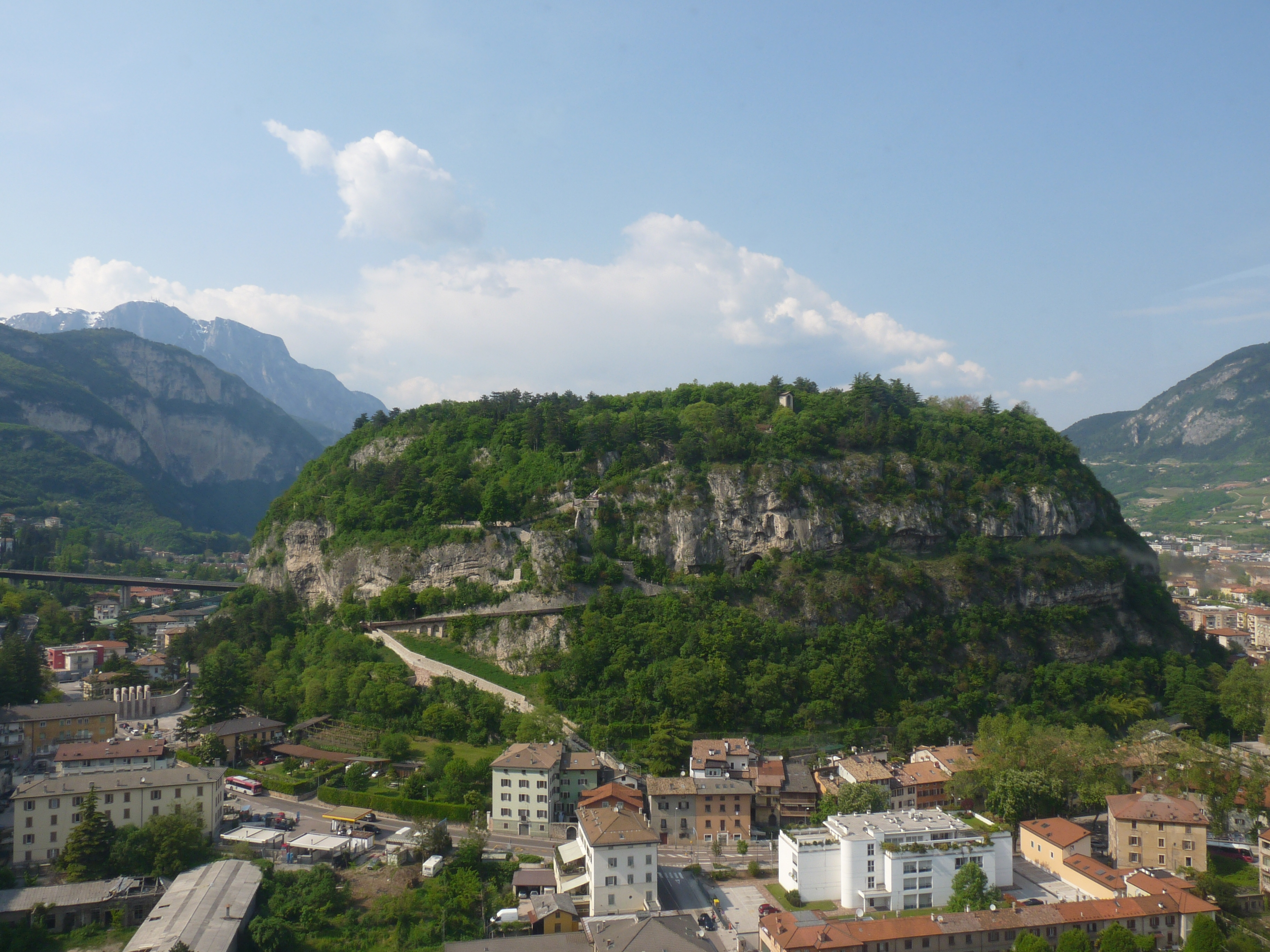 Trento (Italy): view of the southern side of Doss Trento from the cabin of the cableway of Sardagna